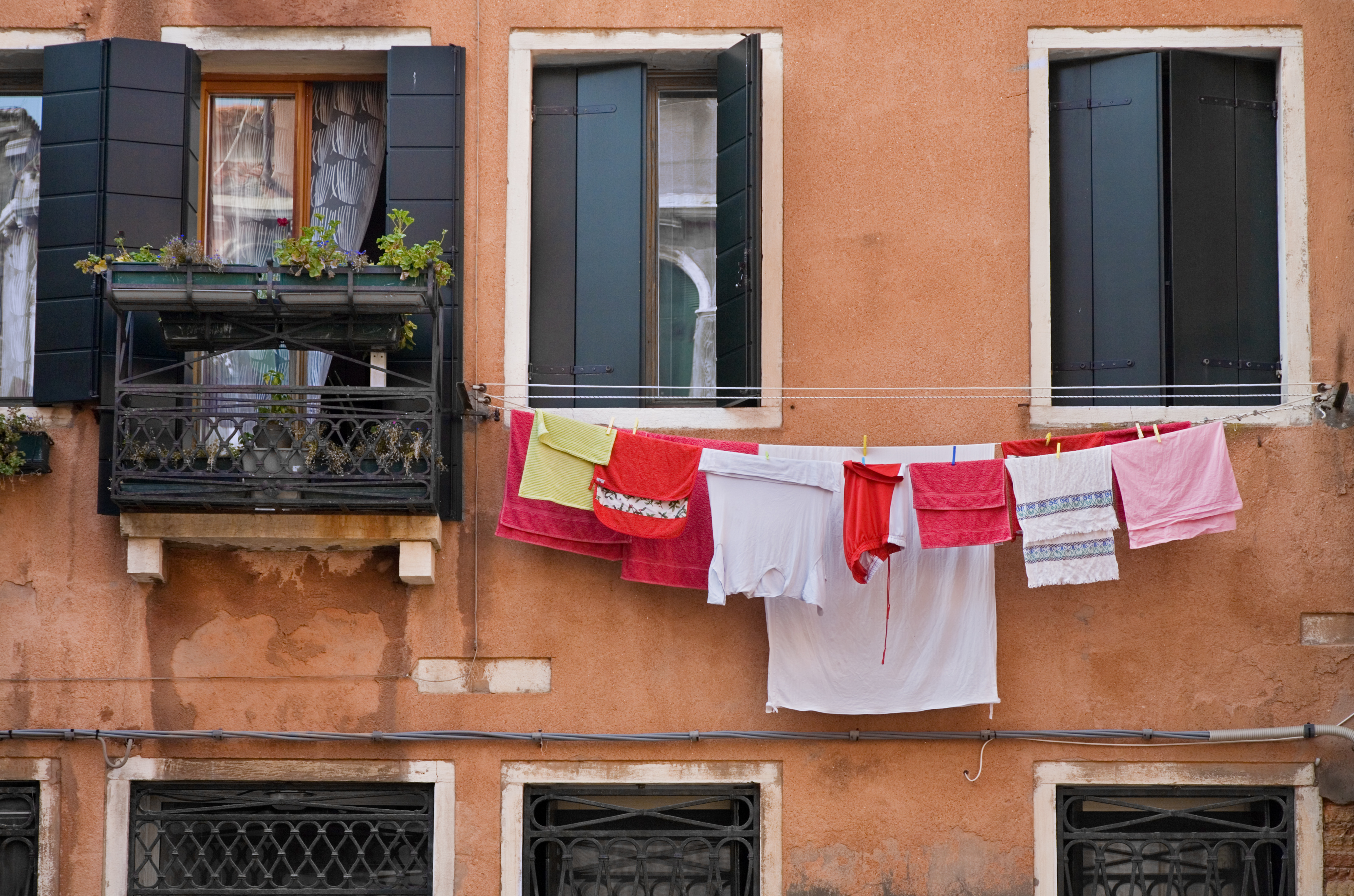 Street scene with cloth wash. Venice, Italy 2009